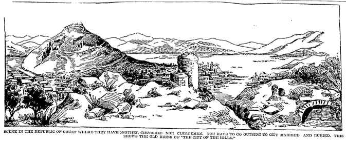 artists rendition of Goust